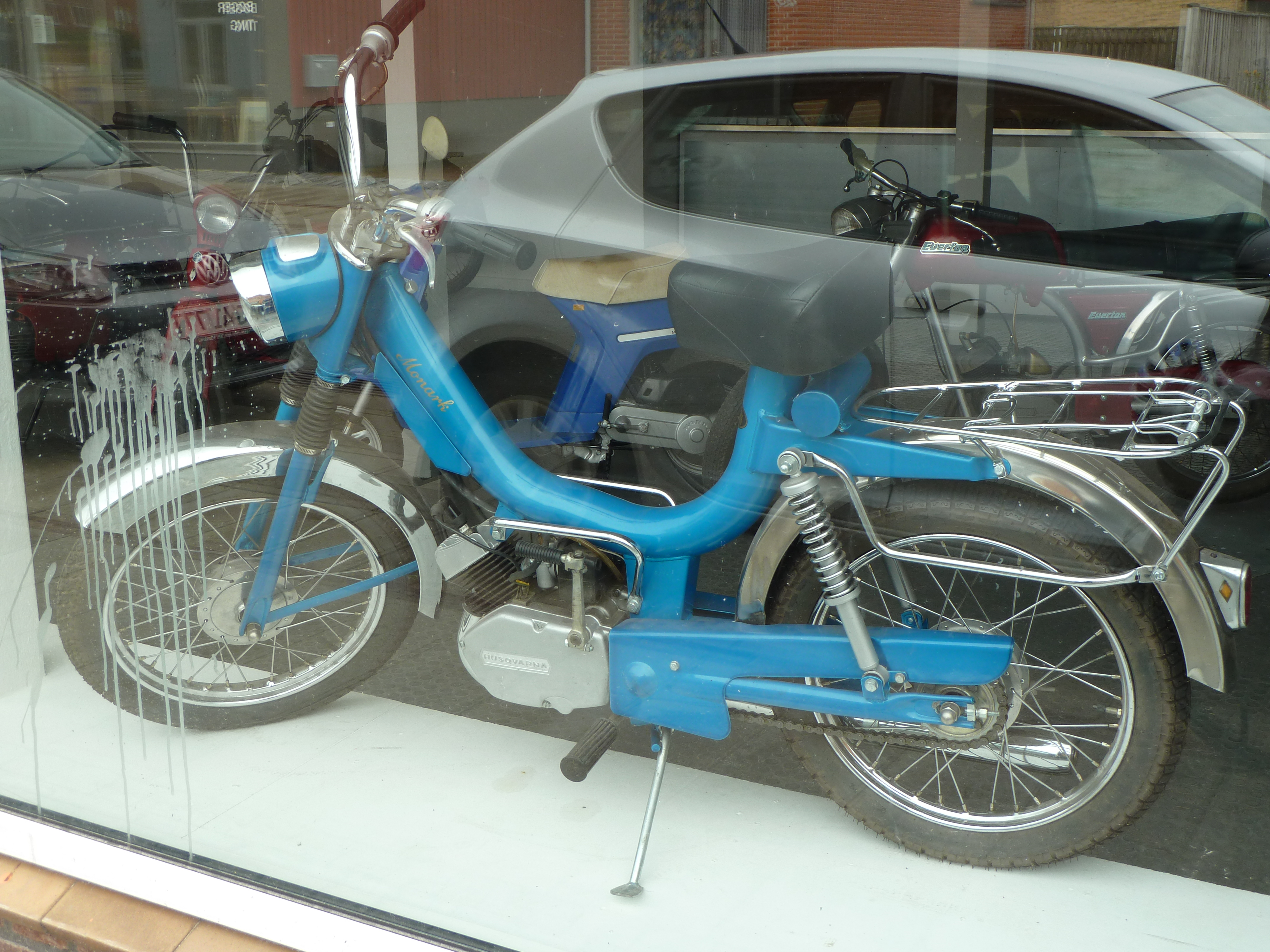 Husqvarna Monark 50cc